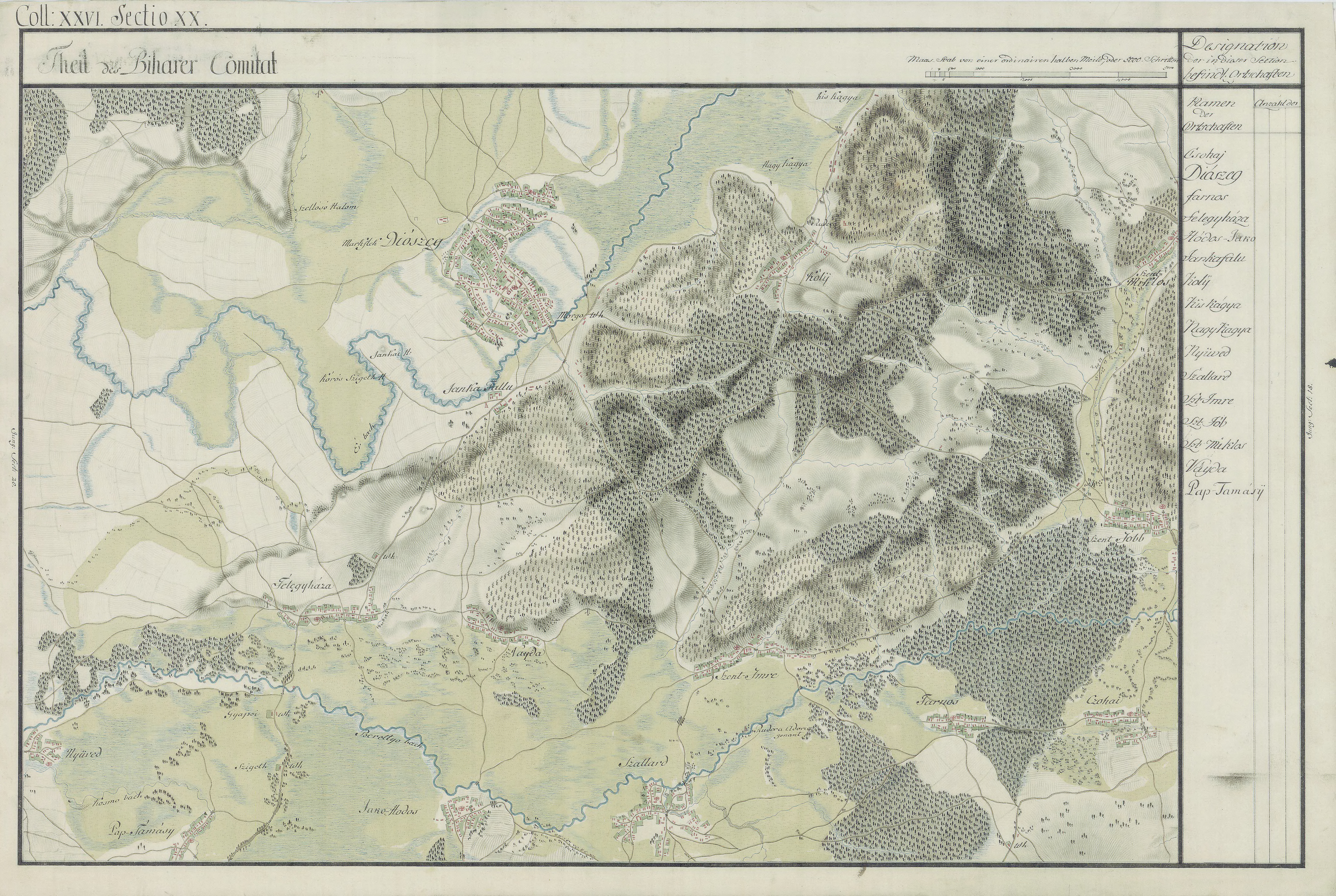 Bihor County, 1782-85. Josephinische Landesaufnahme pg.26-20